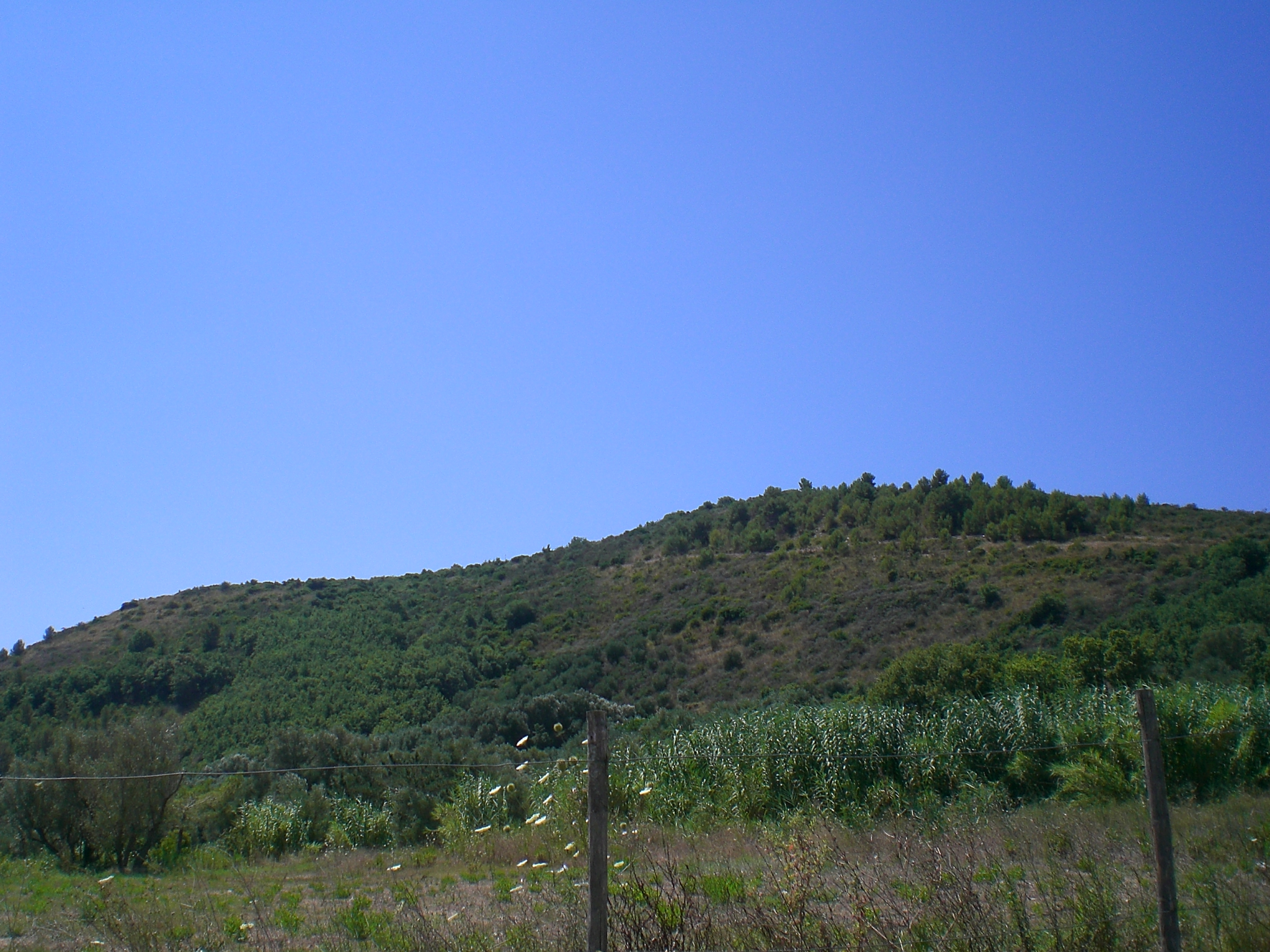 Hill of Molpa near Palinuro — in the Cilento region of the Province of Salerno, Campania, southern Italy.